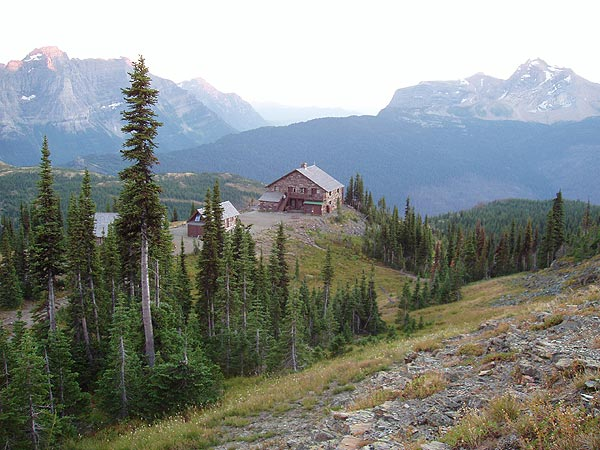 Granite Park Chalet in Glacier National Park (United States)